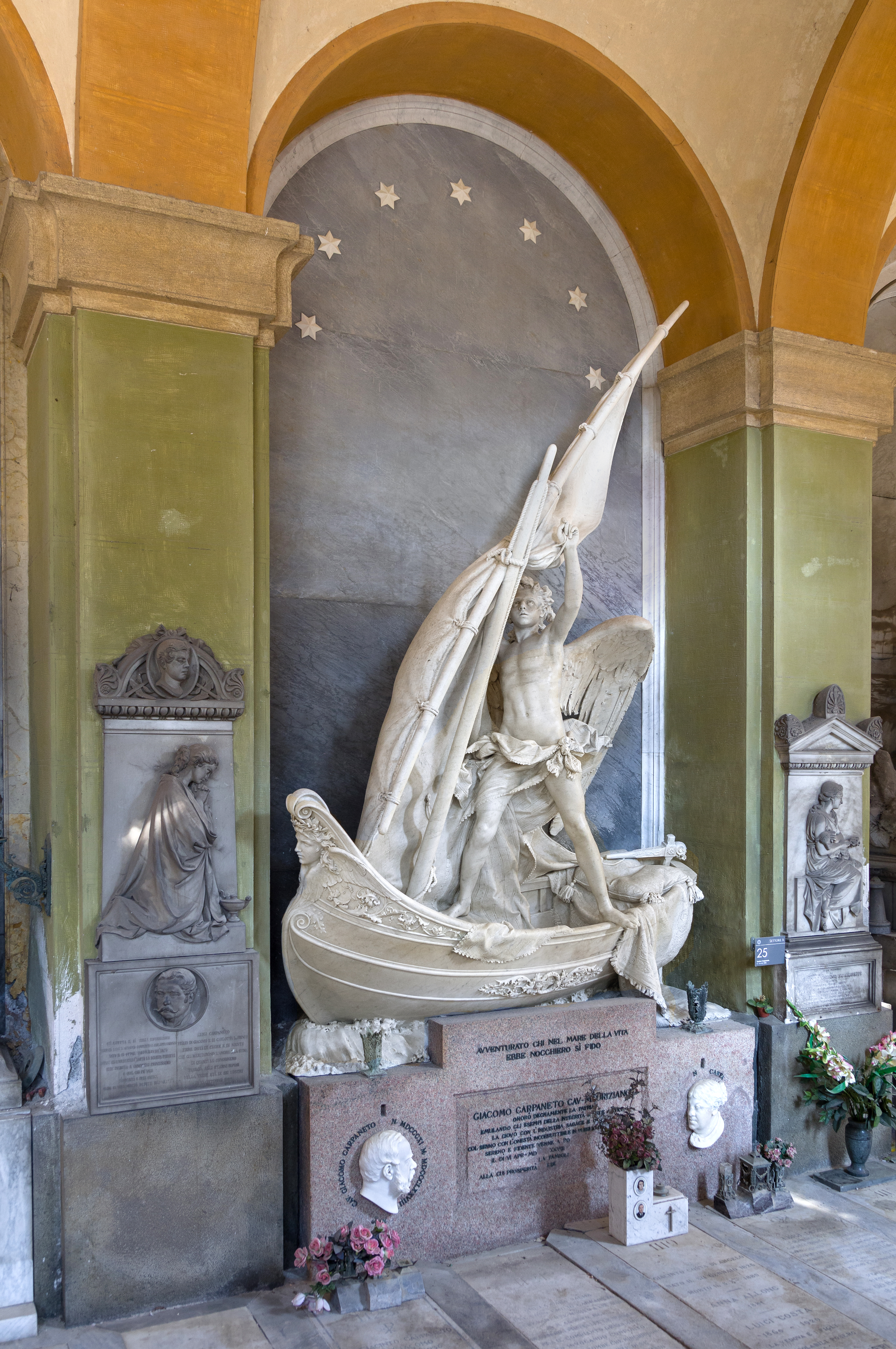 Cemetery monument, tomb of Giacomo Carpaneto (1811-1878) and family, XIXth century, restored in 2016; full view of niche and base